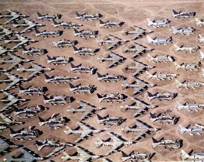 Boeing B-52 planes disassembled and left visible in the open at the Boneyard in Arizona so that they could be photographed by Russian satellites. Their destruction was part of the START treaty compliance.